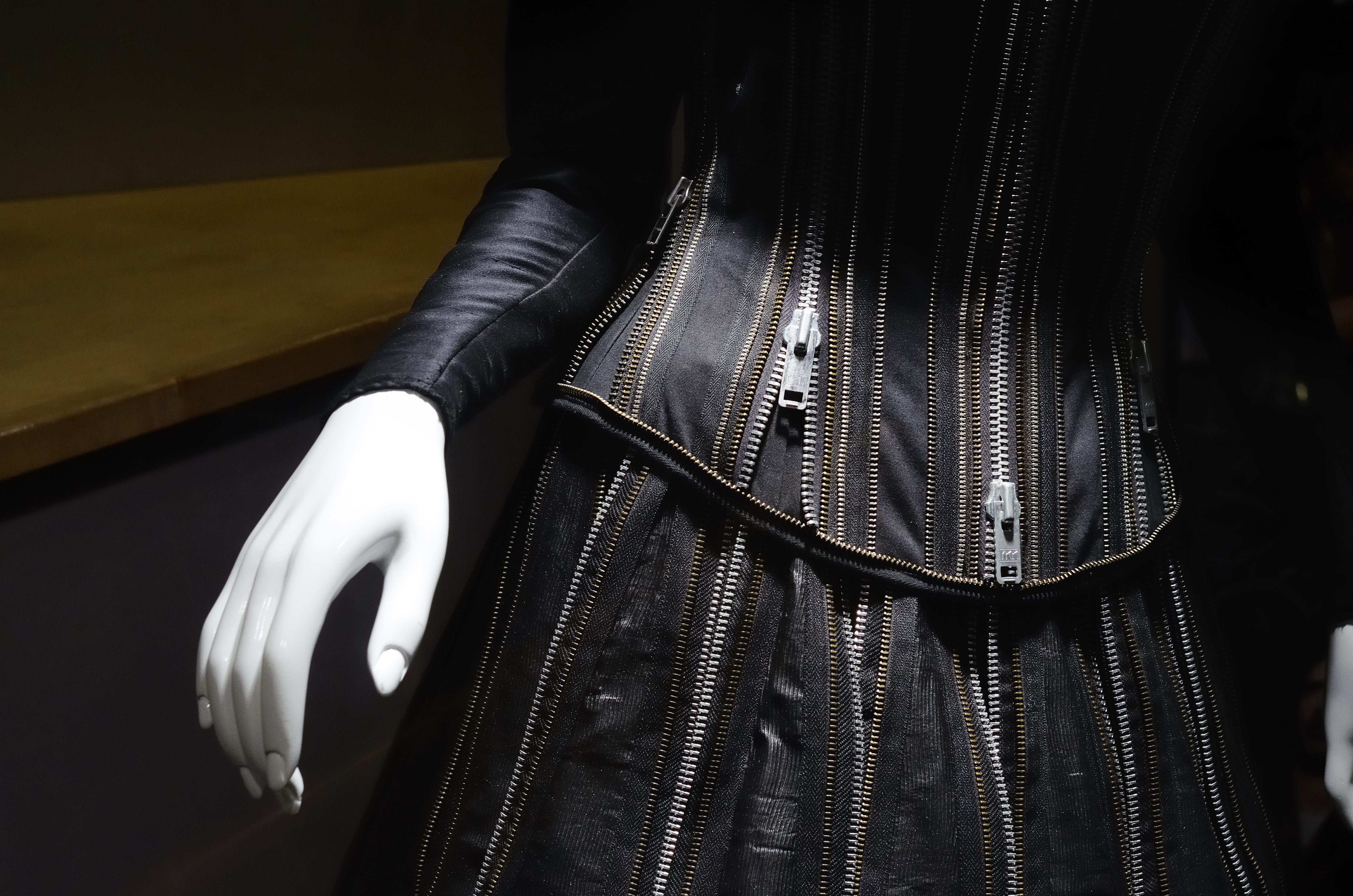 Costume worn by Helen Mirren in the film The Tempest. Costume designed by Sandy Powell. Displayed at Lincoln Plaza Cinemas, Broadway, New York City.